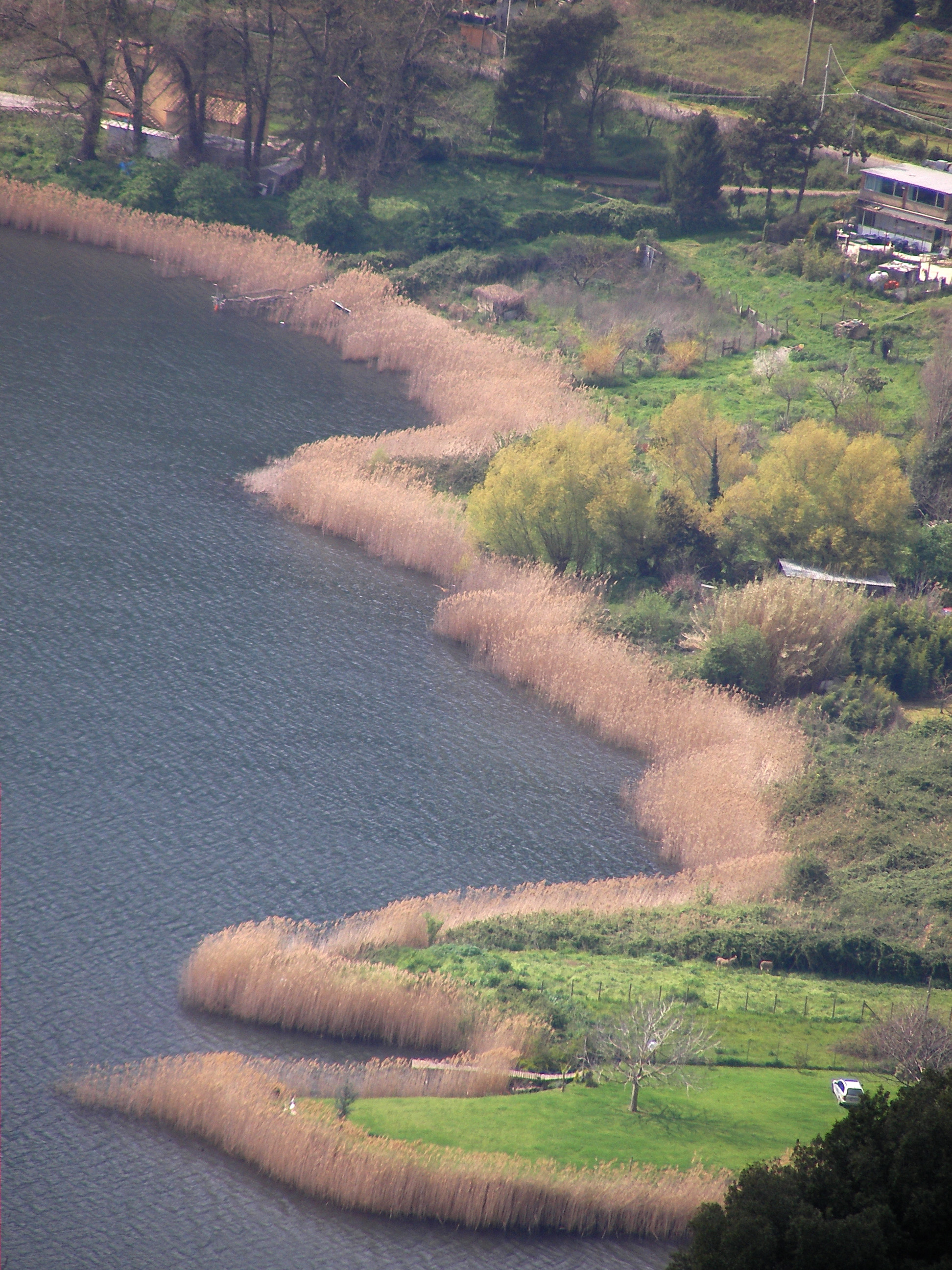 Lago di Nemi, seen from Nemi, Italy